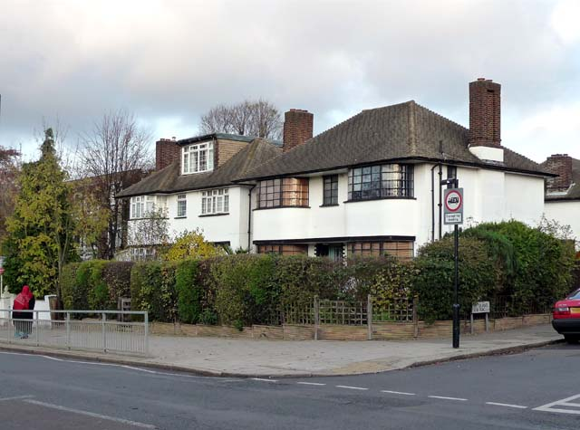 Houses, Leigham Court Road There are a few pockets of 1920s/1930s houses in this area. The one on the right is an immaculately preserved example with a lot of original features, including the Crittall windows. In most cases these have been replaced by modern uPVC windows which unfortunately mar the appearance even if the reasons for installing them are understandable.